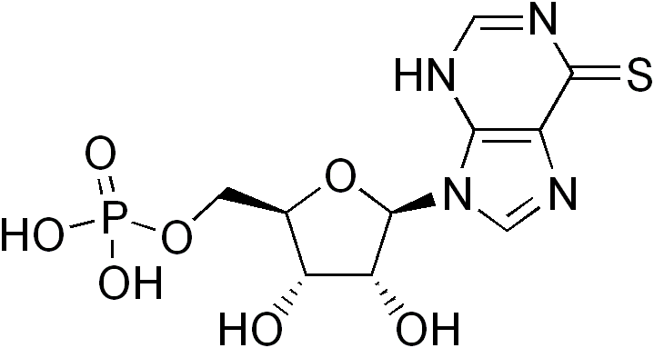 chemical structure of thioinosinic acid